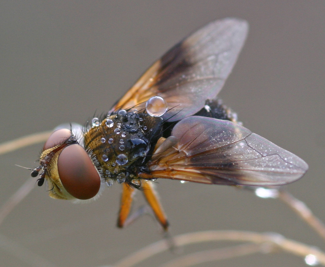 Ectophasia spec. (Diptera: Tachinidae), det. Tschorsnig, 2007 (taken in Amor, Leiria, Portugal)IMG_8892